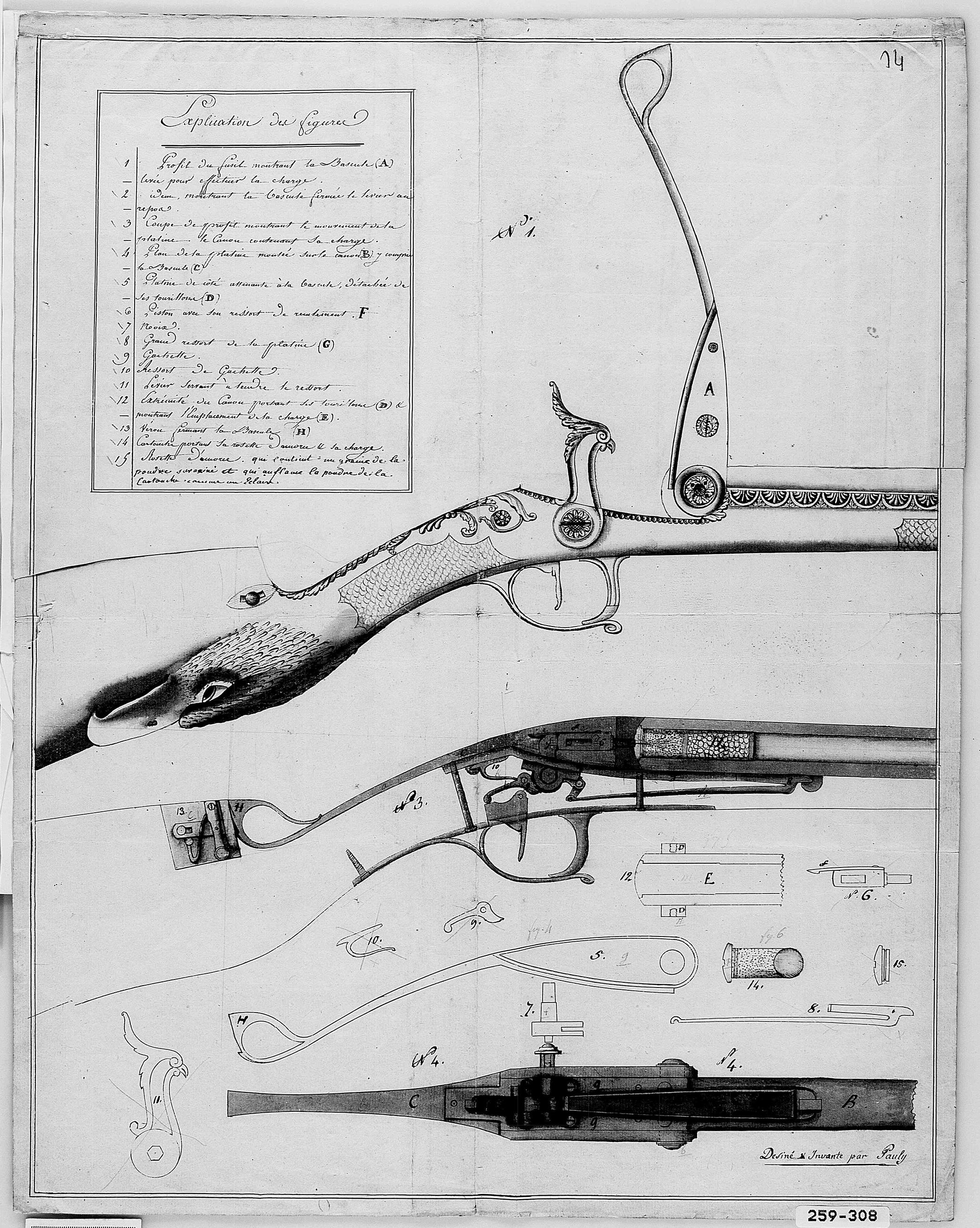 Breech-loading shotgun using self-contained cartridges, from the French patent taken out 29 September 1812 by Samuel Johannes Pauli.